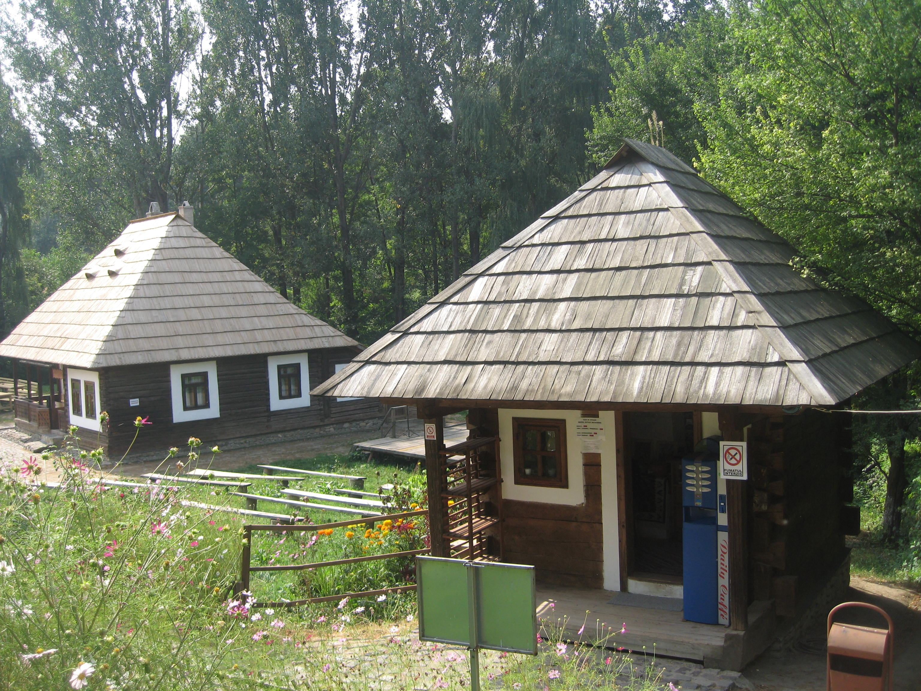 Bukovina Village Museum - The Câmpulung Moldovenesc Hut and the Şaru Dornei Tavern.